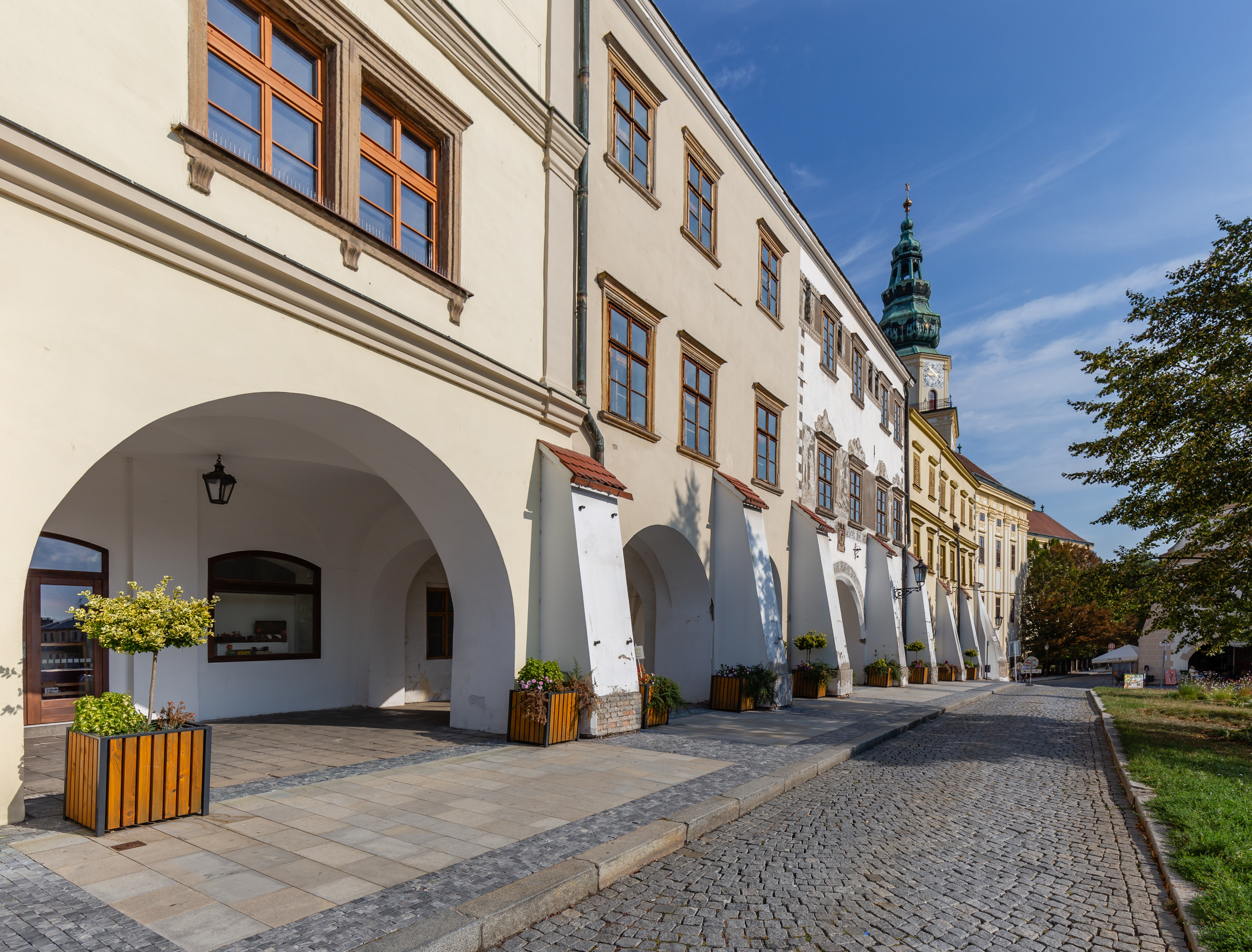 Regents's house & Max Švabinský memorial house, Kromeriz, Czech Republic